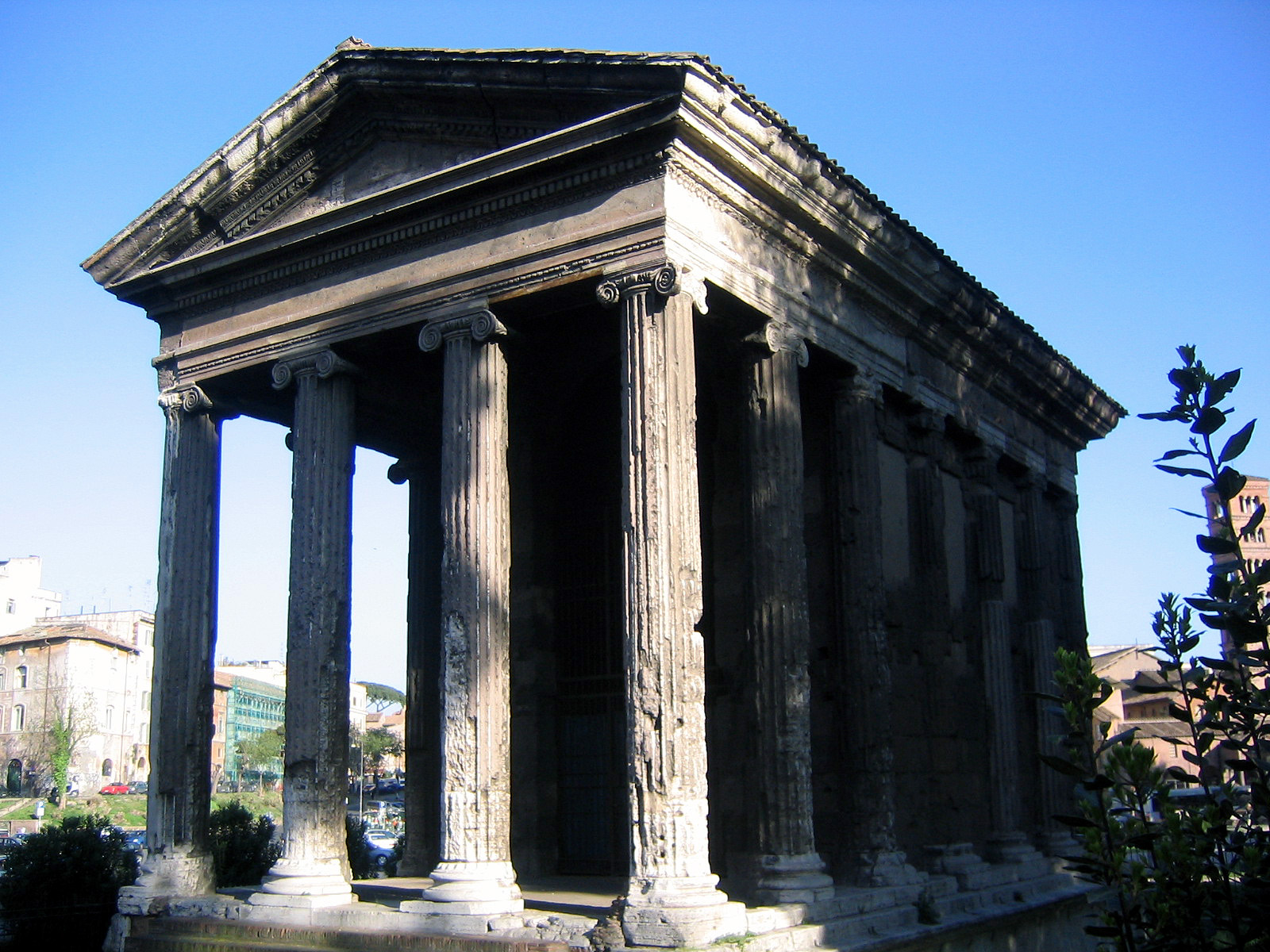 Temple of Portunus, Rome, Italy. This temple, dating from about 80-70 BC, stands near the Tiber in the old Forum Holitorium, the fruit and veg market of ancient Rome. It is dedicated to Portunus, the god of the port.